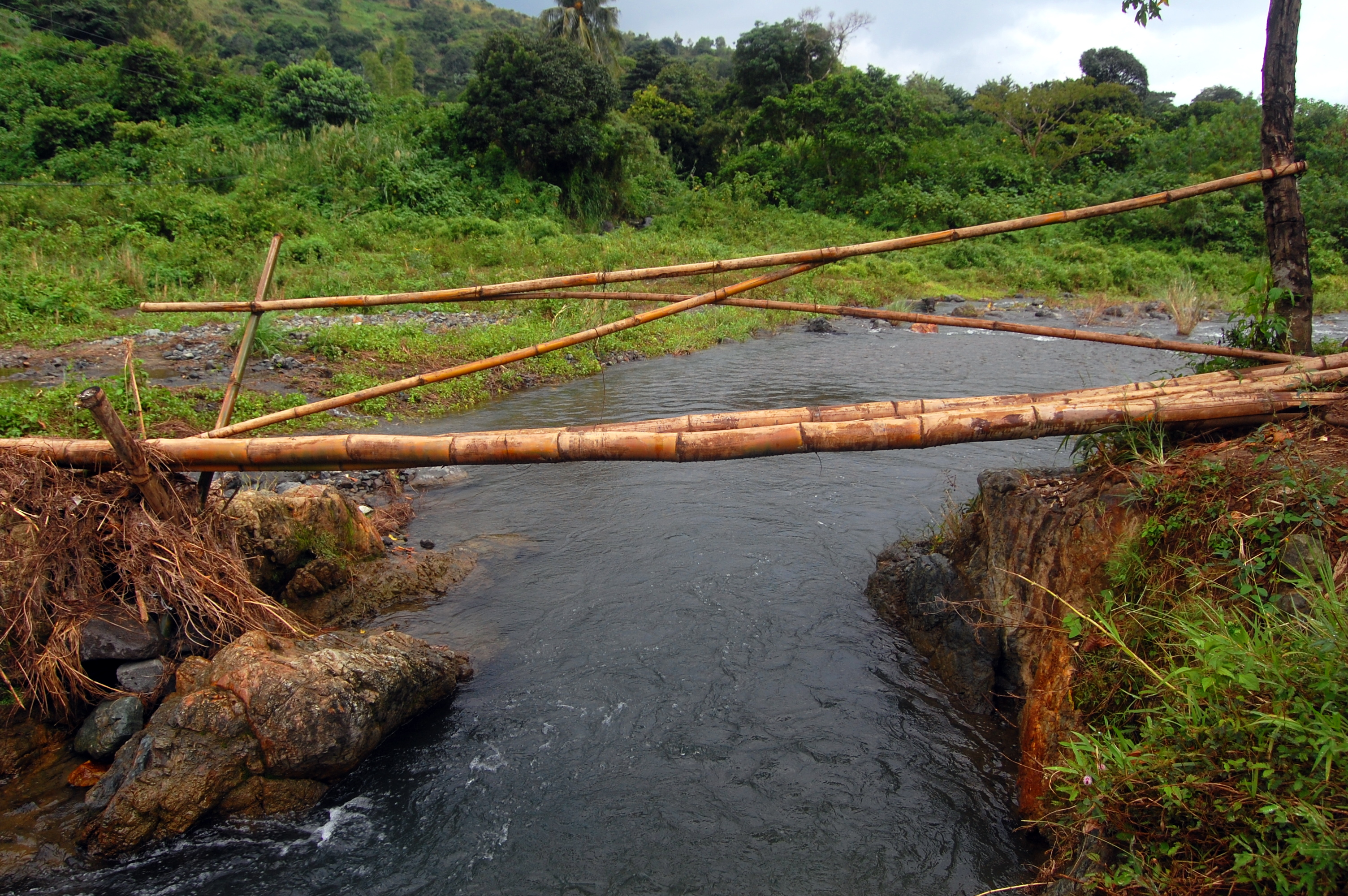 A makeshift bamboo bridge straddles the headwaters of the Diaman River in the Caraballo Mountain range in Capintalan, Carranglan, Nueva Ecija. The bridge leads to one of the biggest micro-hydroeletric project in the Philippines that was installed by PRRM. Nikon D40 (CSN Visit to Nueva Ecija, September 2007).